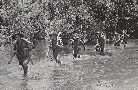 Members of the 2/6th Independent Company, Australian Army, patrol near Wanigela, New Guinea, in October 1942